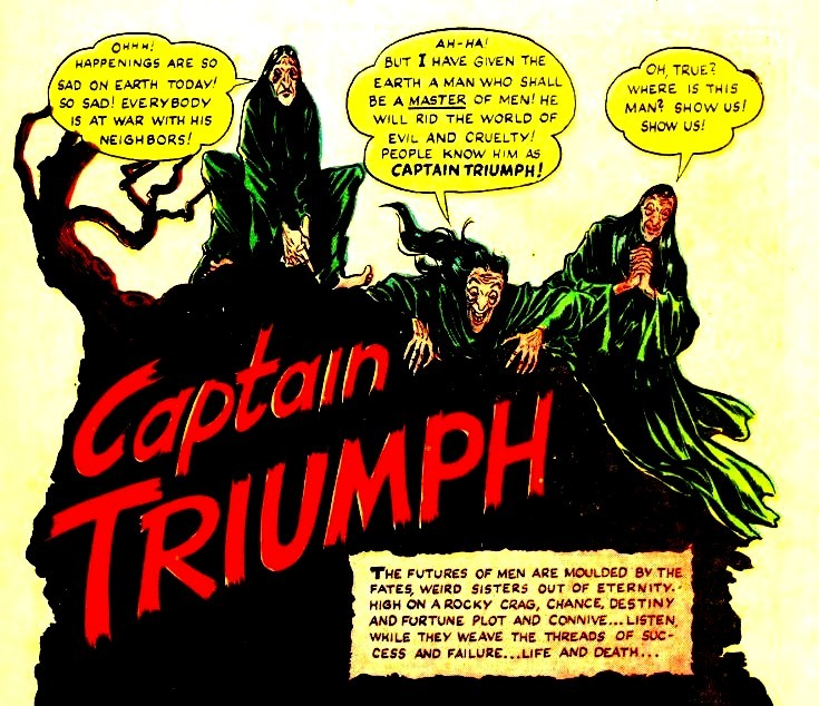 Crack Comics #28, page 1, panel 1.